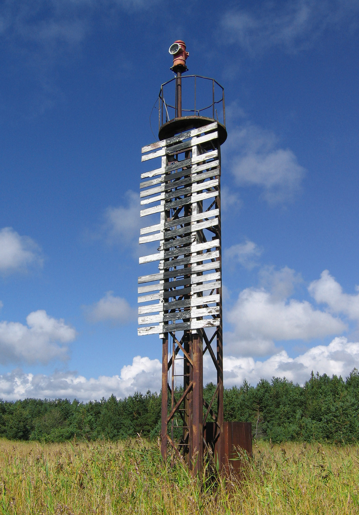 Nasva harbour front light beacon